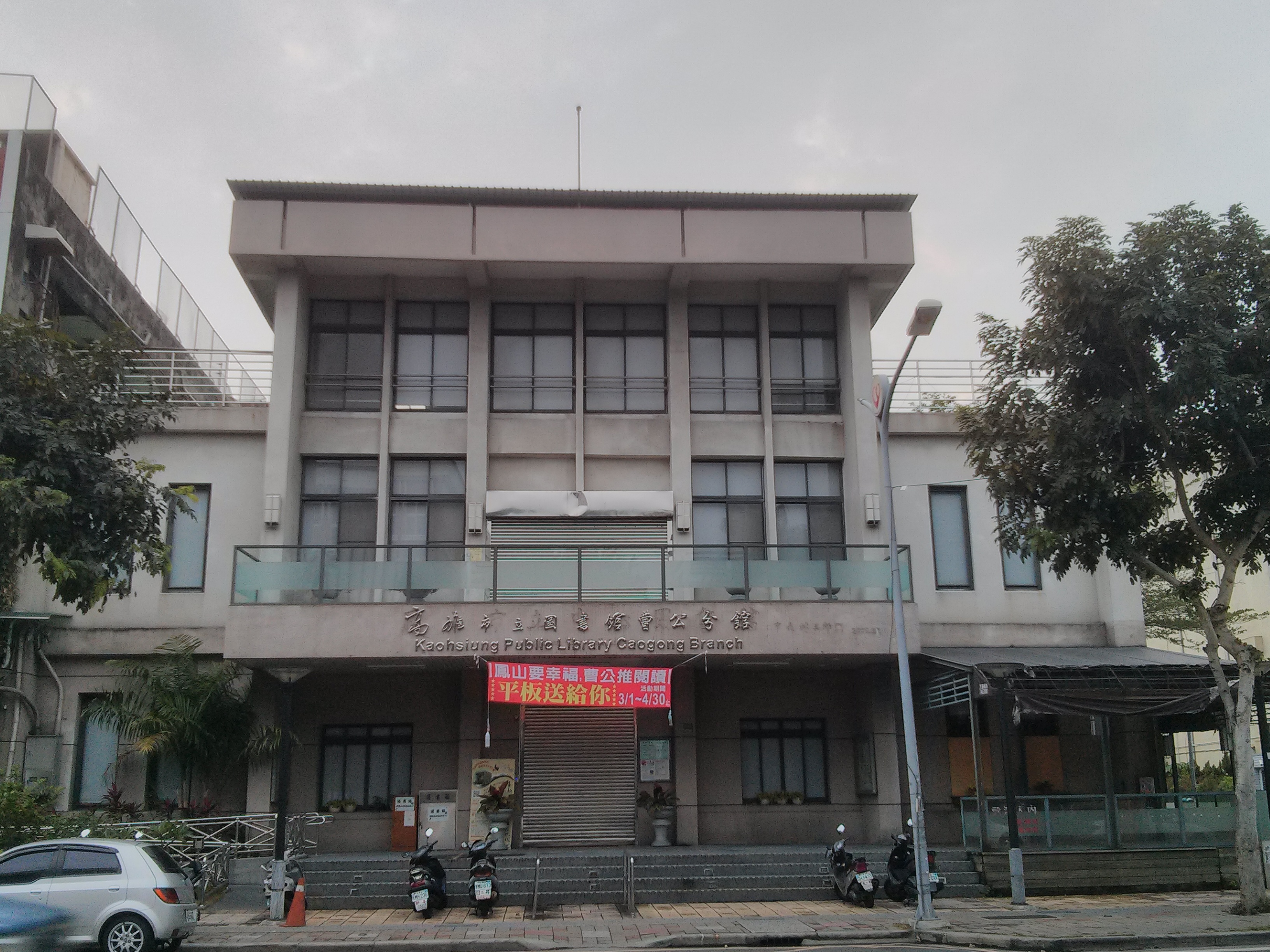 Kaohsiung Public Library Caogong Branch